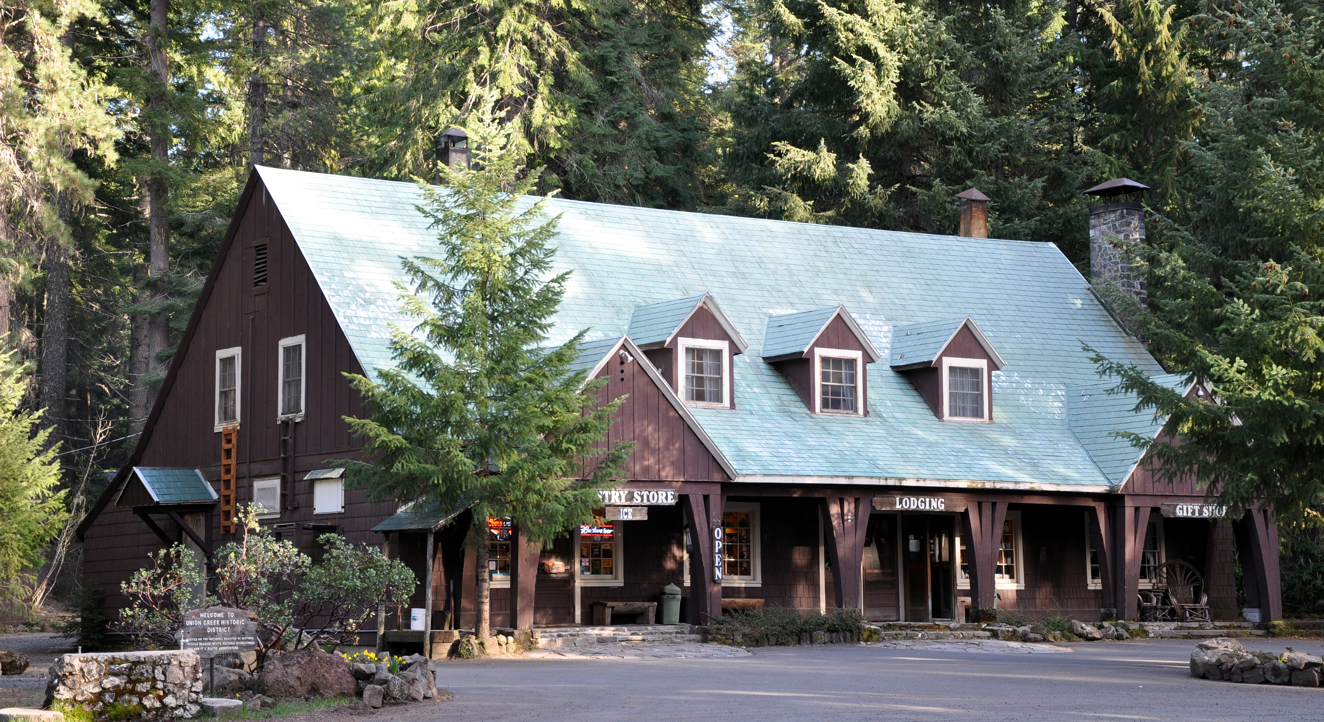 Union Creek Lodge in the Union Creek Historic District along the upper Rogue River in the U.S. state of Oregon